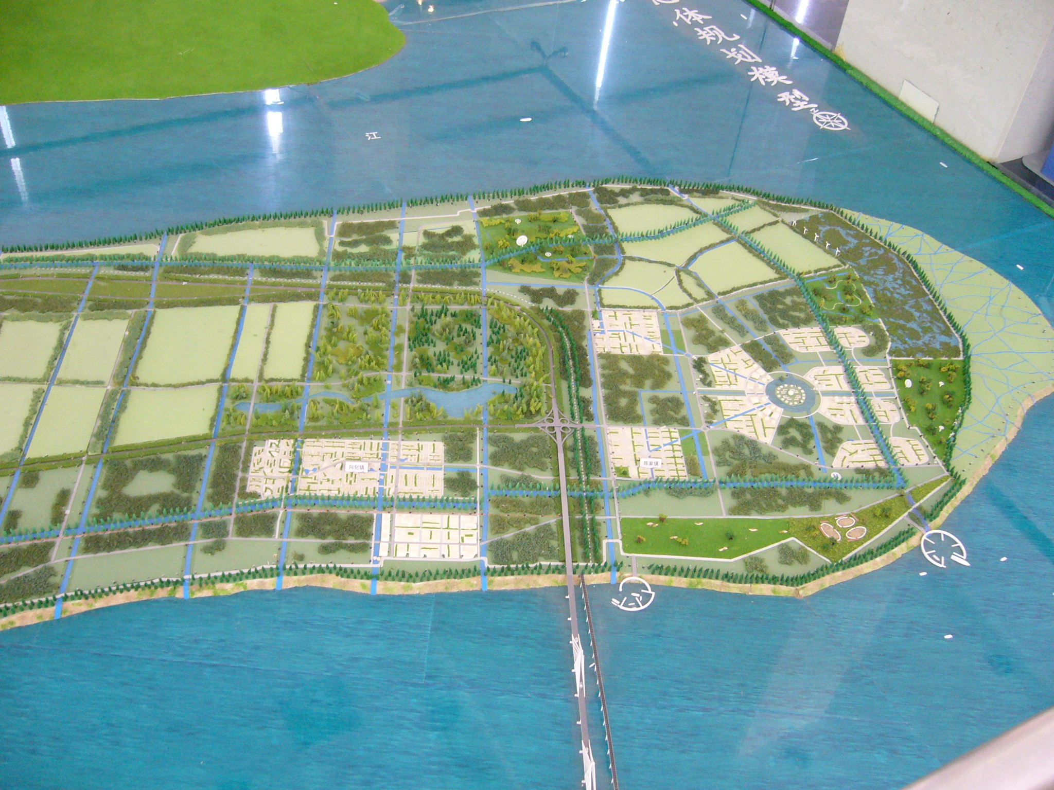 Chongming Island, Shanghai, China Chenjia Zhen on right. Bridge from Shanghai in center.